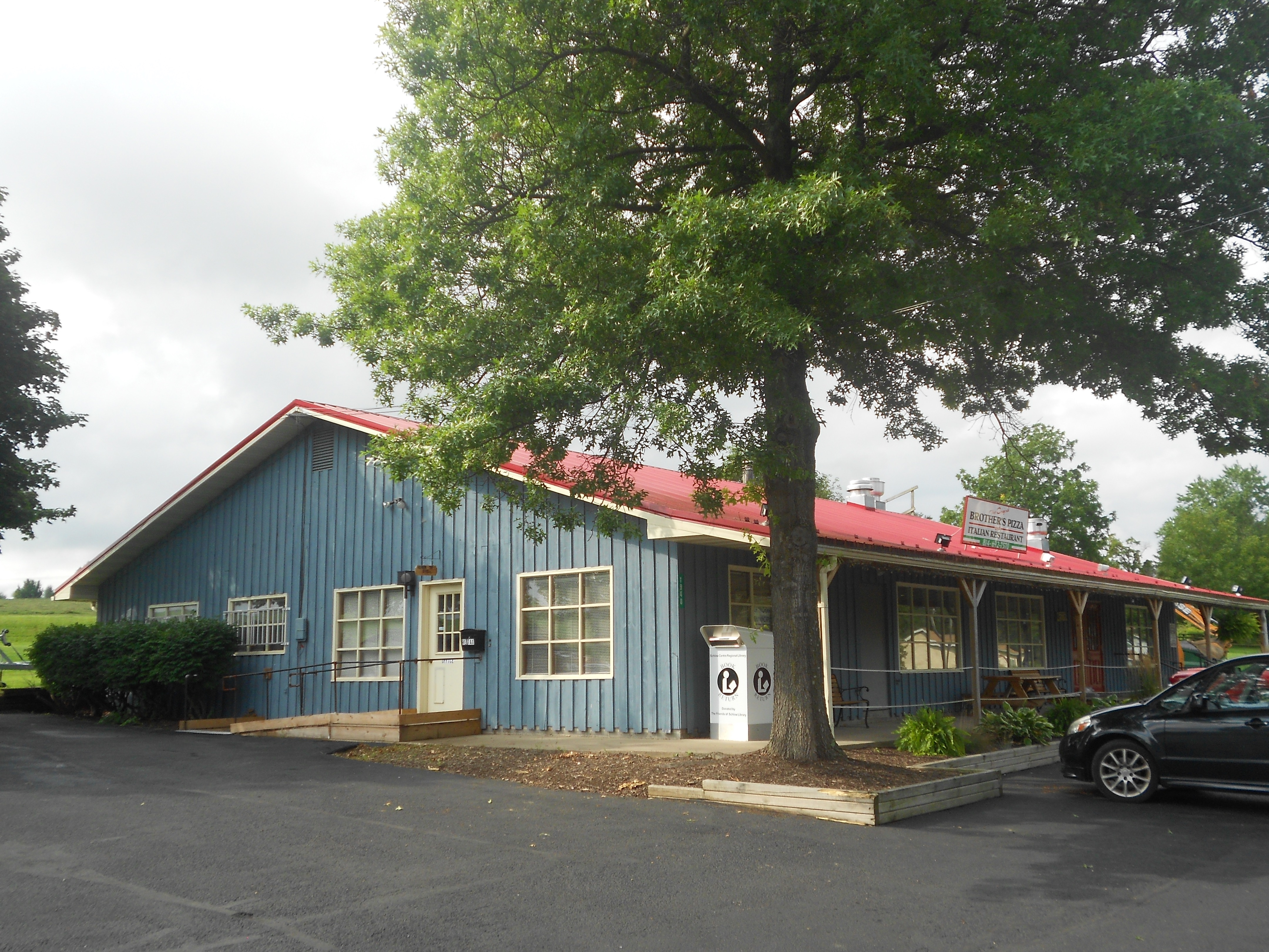 Municipal Building for Halfmoon Township (according to sign in the window) which also seems to contain a public library and Brothers Pizza. There also seems to be another municipal building for the township about 0.5 miles north in the park